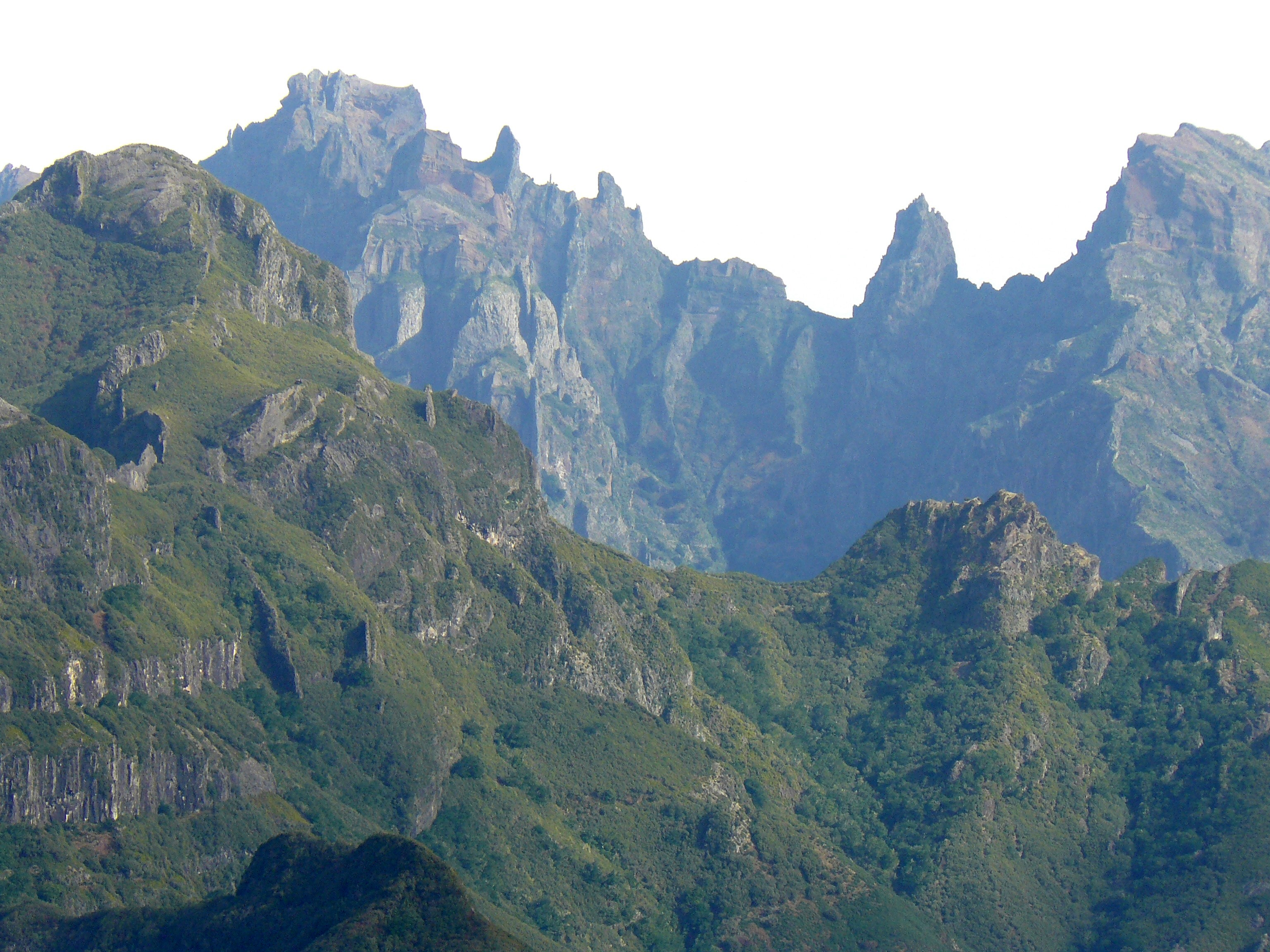 View from Bica da Cana (Madeira, Portugal)